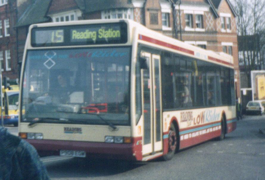 Reading Buses bus 908, reg. P908 EGM, a 1997 Optare Excel low floor single-decker bus with Low Rider branding, pictured operating Route 15 to the station, in 1999.